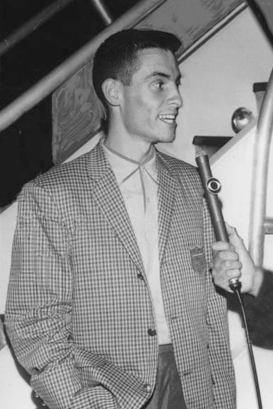 1960 Press Photo Kent Mitchell and Eliot Tezor on 1960 Olympics on CBS